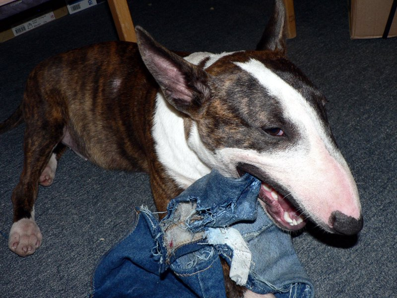 Bull Terrier: It was jeans 02